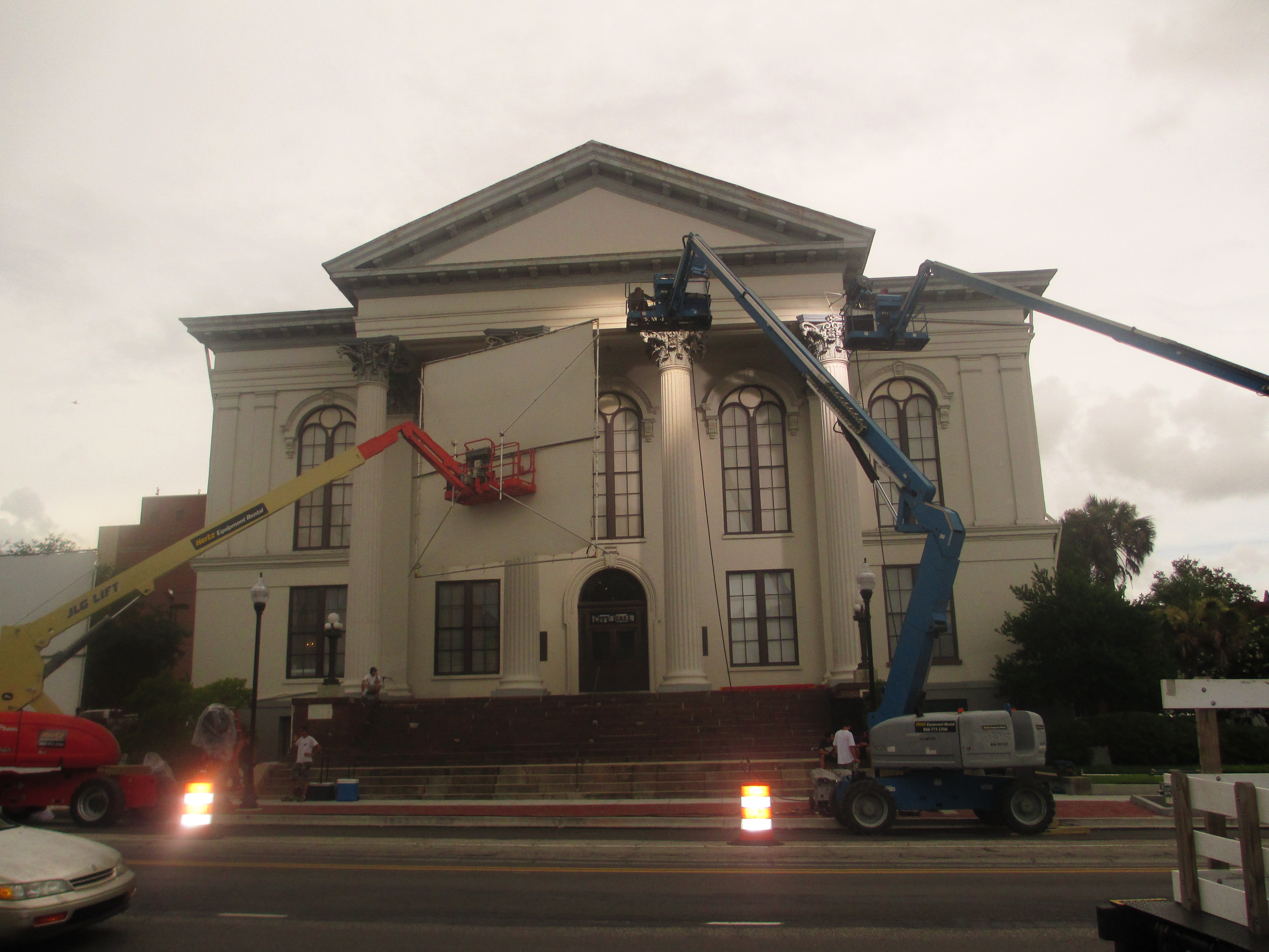 I took photo of Wilmington, NC, City Hall with Canon camera.